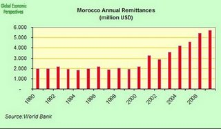 A graph made by information of the world bank.